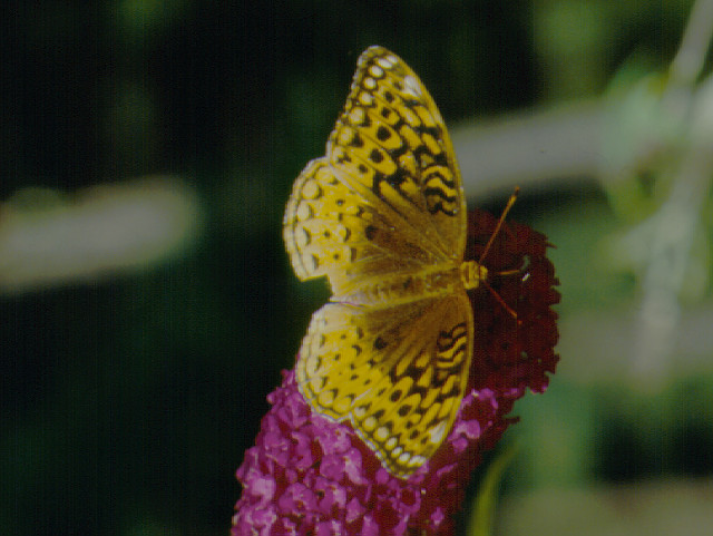 Speyeria cybele — Great spangled fritillary butterfly. At Sizerville State Park in Cameron and Potter Counties, Pennsylvania, United States.